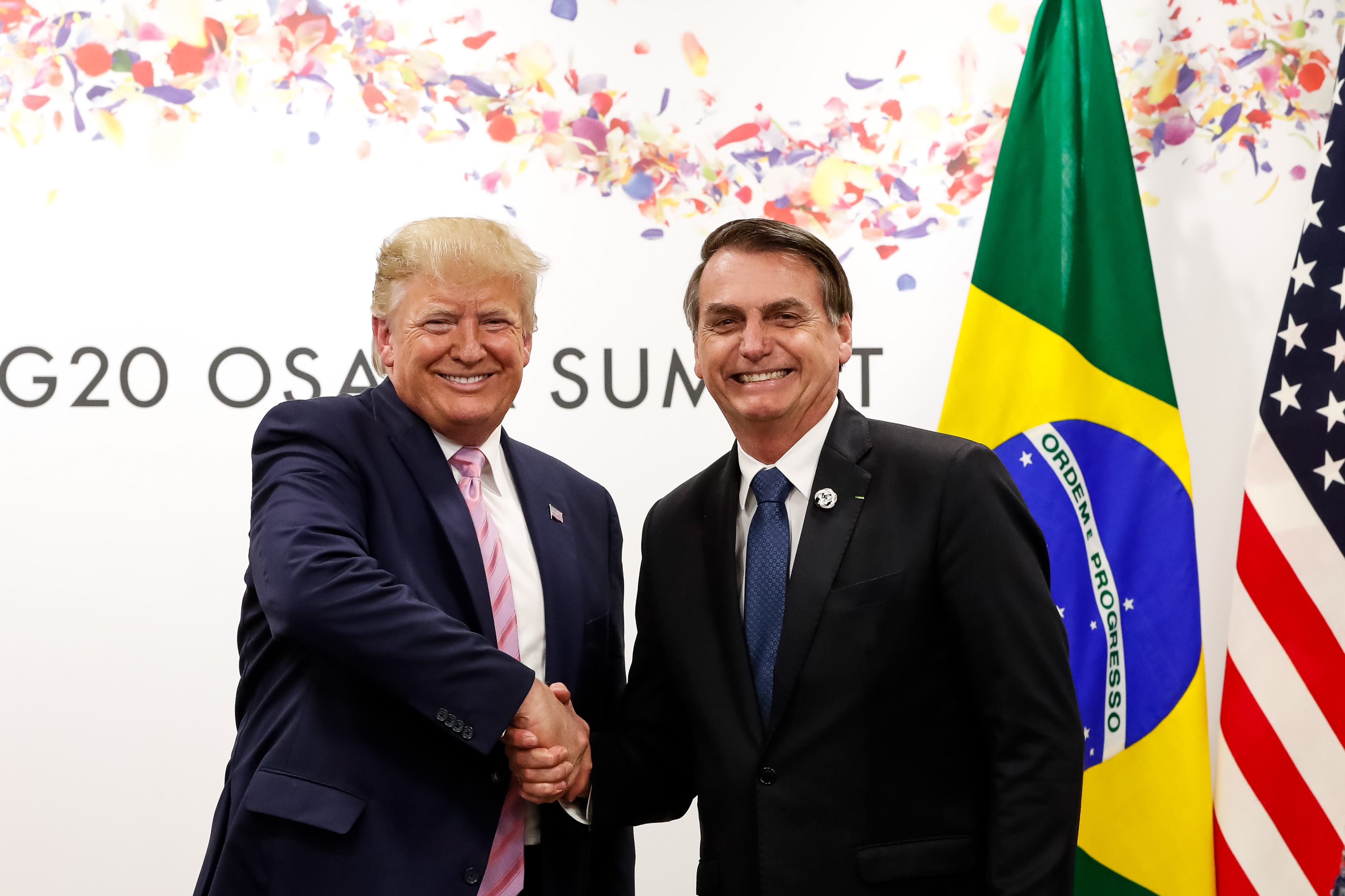 (Osaka - Japão, 28/06/2019) Presidente da República, Jair Bolsonaro, durante Reunião bilateral com o senhor Donald J. Trump, Presidente dos Estados Unidos da América. Foto: Alan Santos/PR